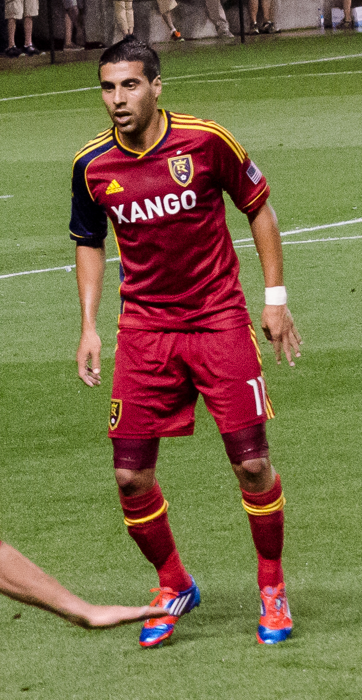 Real Salt Lake vs DC United